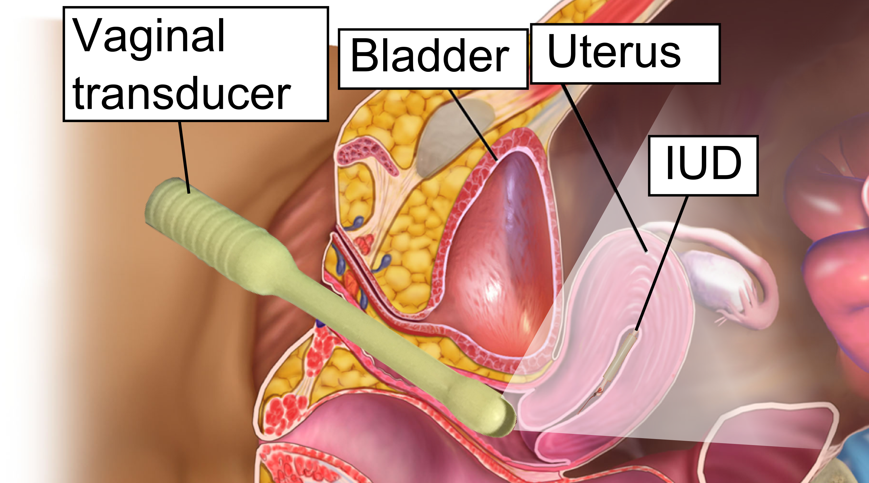 Schematic diagram showing vaginal ultrasonography of a Mirena type of intrauterine device with progestogen.